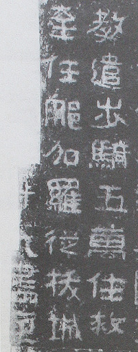 Rubbing of Gwanggaeto Stele(ACE414), detail, stored in Tokyo University